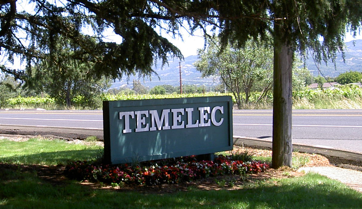 the north entrance sign for the Temelec housing development (corner of Almeria and Arnold) located west of Sonoma, California, USA